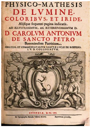 book cover Physicomathesis de lumine, coloribus et iride aliisque annexis